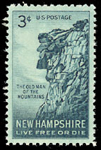 Old Man of the Mountain Sesquicentennial Stamp, issued June 21, 1955